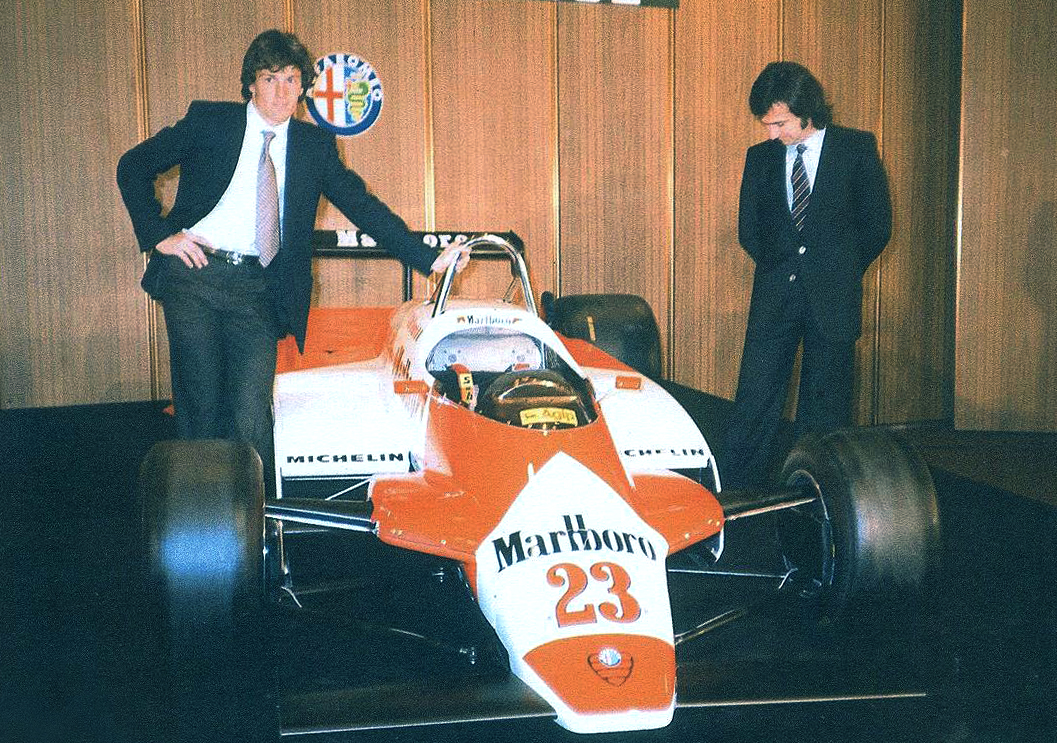 Formula One drivers Andrea de Cesaris (left) and Bruno Giacomelli, with the 1982 Alfa Romeo 182